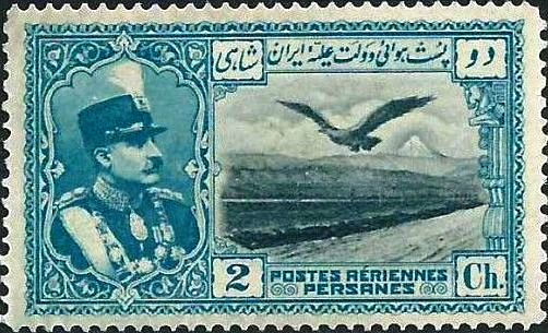 Iranian State airmail stamp 1930s